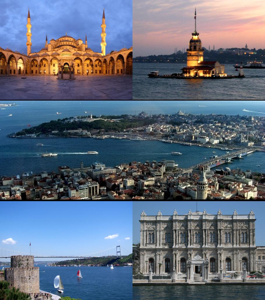 Collage of Istanbul